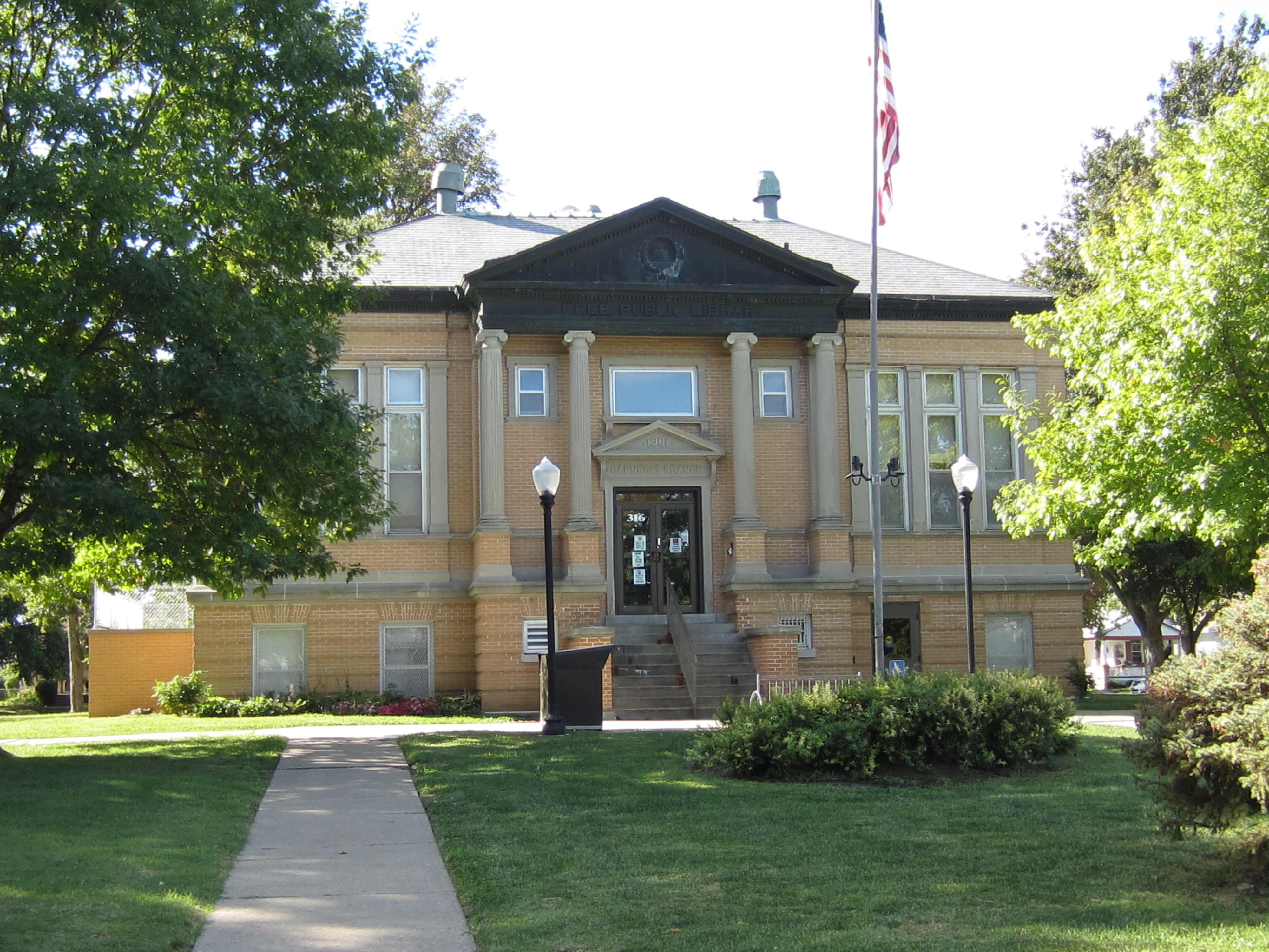 Andrew Carnegie funded public library on Massachusetts St., St. Joseph, MO (2013)